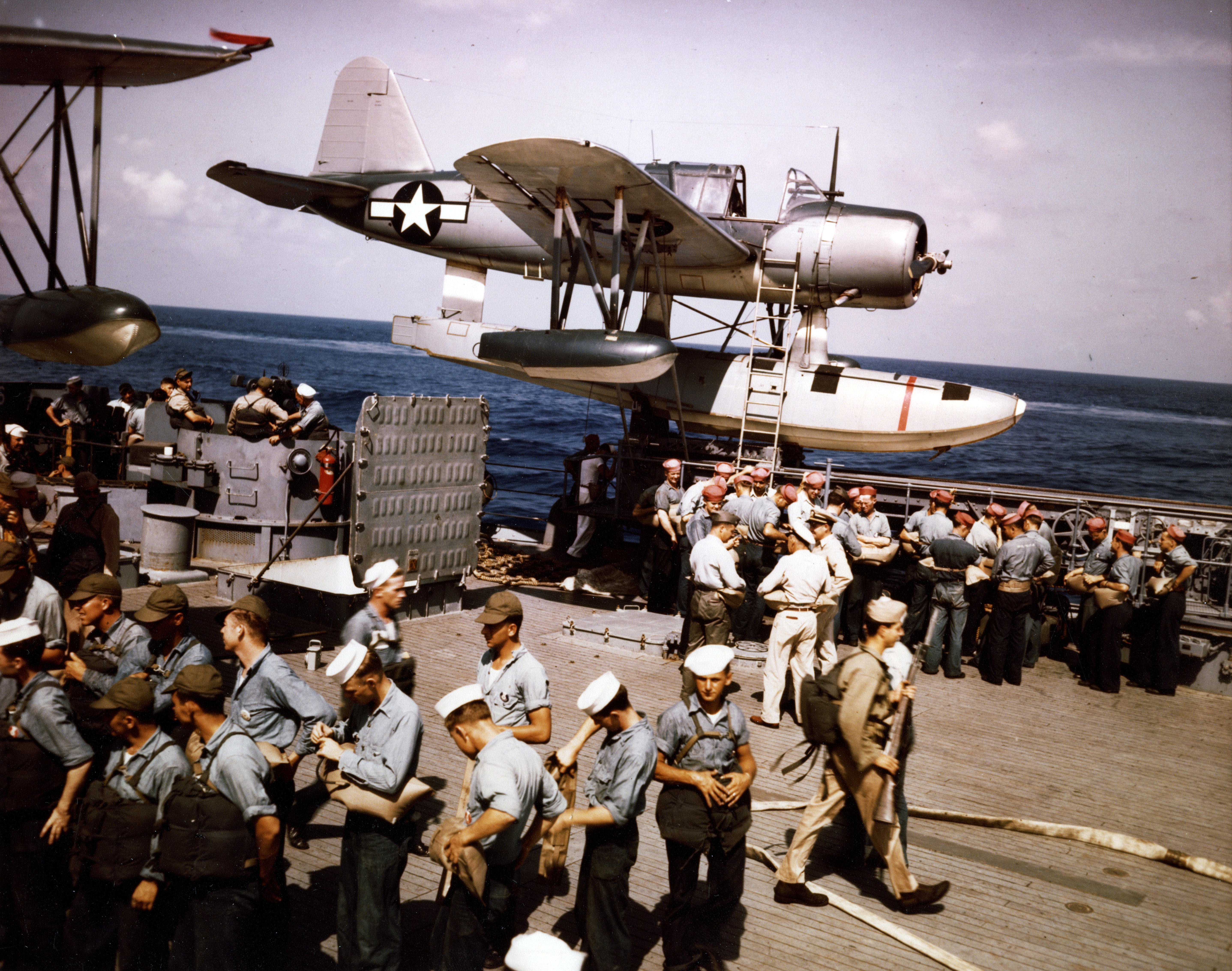 View of an abandon ship drill on the after deck of the U.S. Navy battleship USS Missouri (BB-63), during her shakedown period in the summer of 1944. Note the Vought OS2U Kingfisher floatplane (actually a Naval Aircraft Factory OS2N-1) on the port side catapult; the variety of lifebelt types; the baseball caps and the red "white" hats worn by some sailors; the Marine walking by with an M-1 rifle; and the open hatch cover.